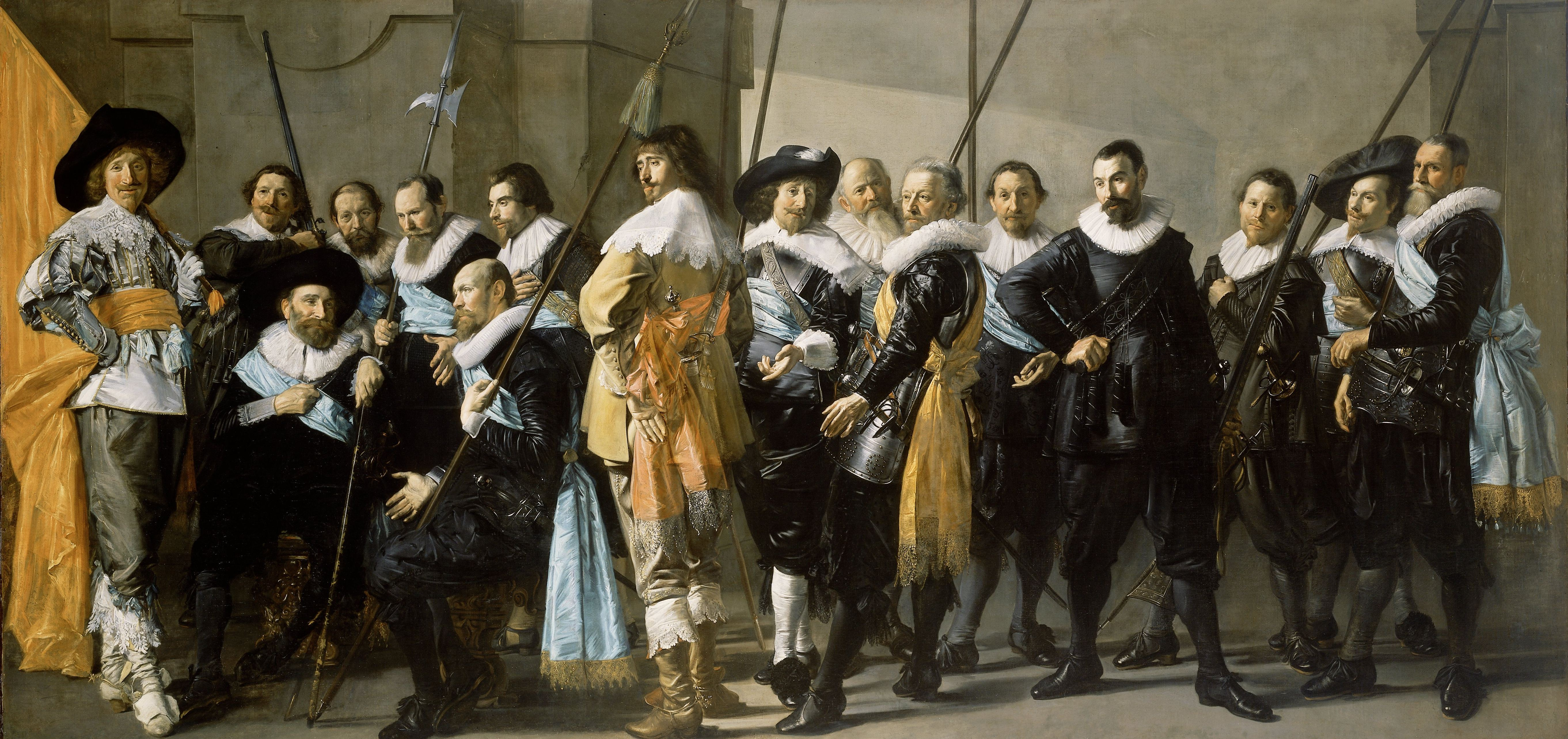 The company of Captain Reinier Reael and Lieutenant Cornelis Michielsz. Blaeuw, Amsterdam, 1637, known as the 'Meagre Company'. Militia painting with two sitting men. All other men are standing. Some carrying a banner, halberd and lance.